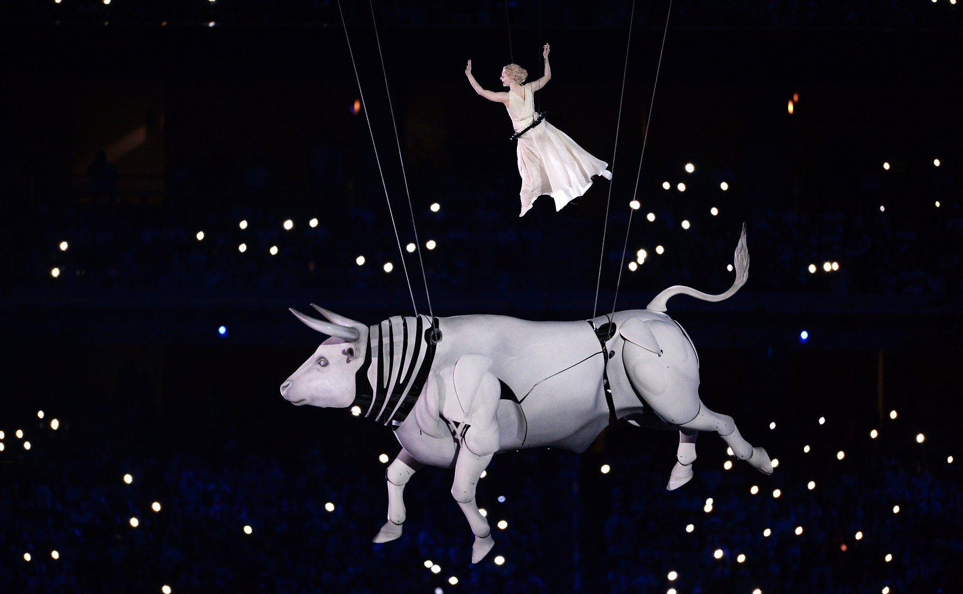 The opening ceremony of the first European games